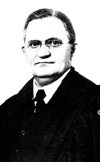 George A. Cooke (1869-1938)